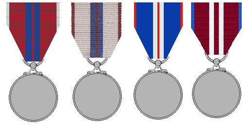 Coronation- and Jubileemedals of Elizabeth II